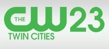 The logo of WUCW